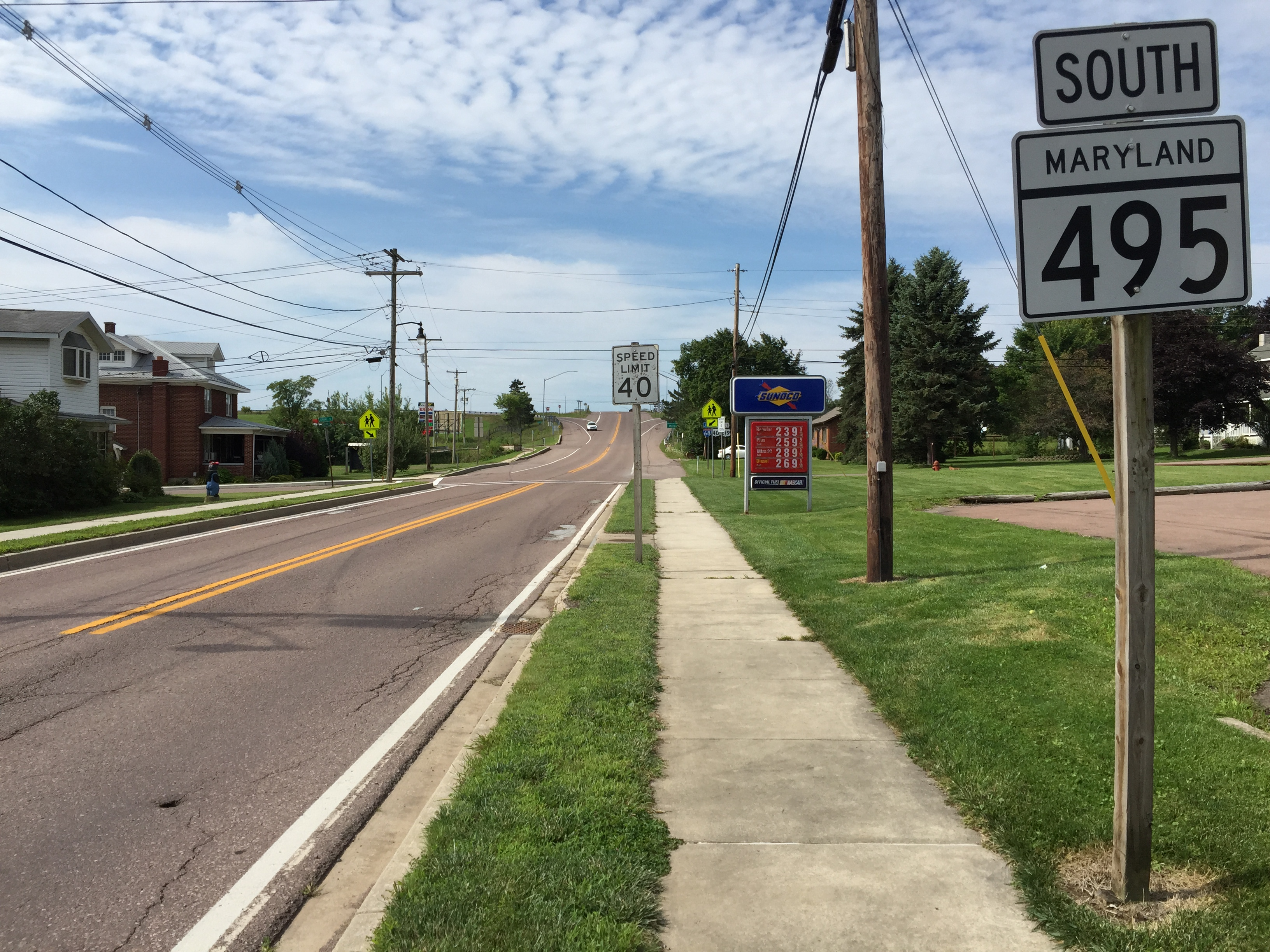 View south along Maryland State Route 495 (Yoder Street) at Bittinger Lane in Grantsville, Garrett County, Maryland